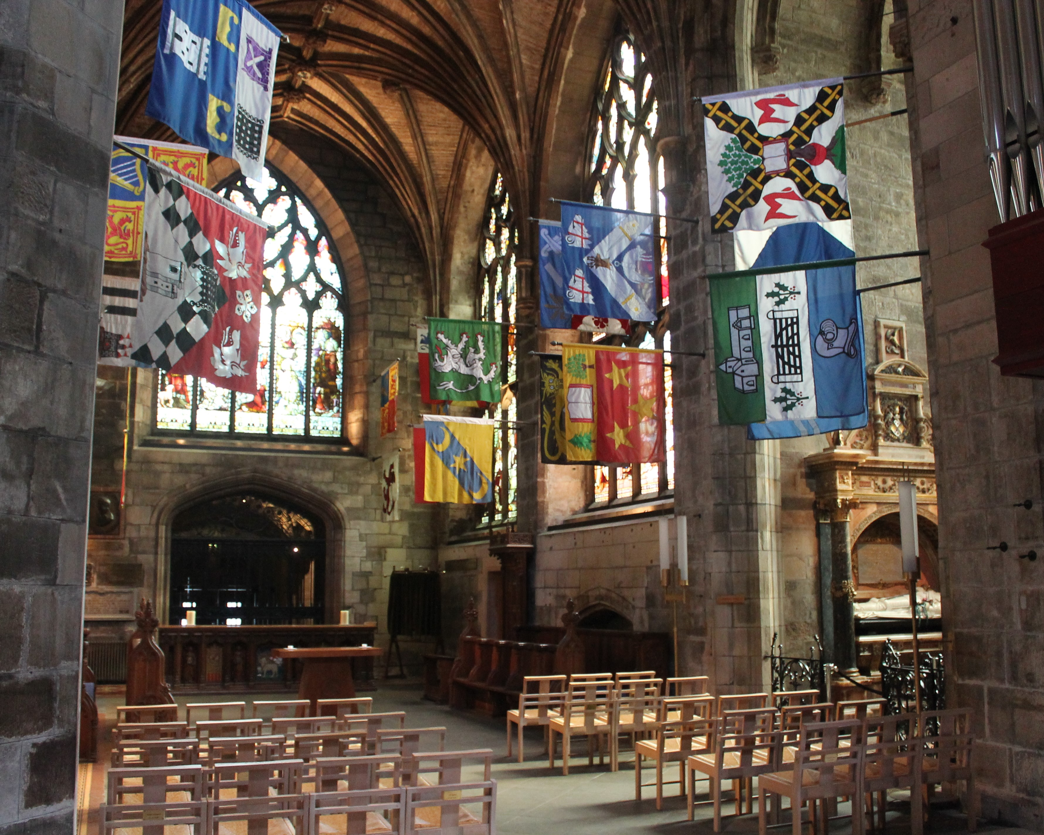 The Preston Aisle in St Giles' Cathedral, Edinburgh was added to the south-east of the church in from the middle of the 15th century in memory of William Preston of Gorton, who brought the arm bone of St Giles' to the church.